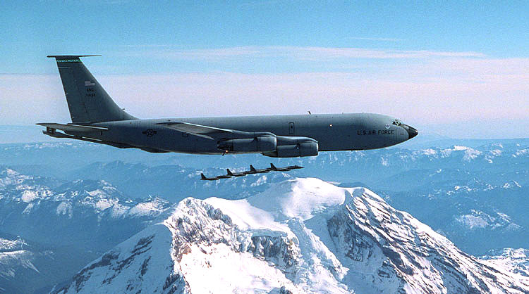 141st Air Refueling Wing - KC-135 over Mount Ranier